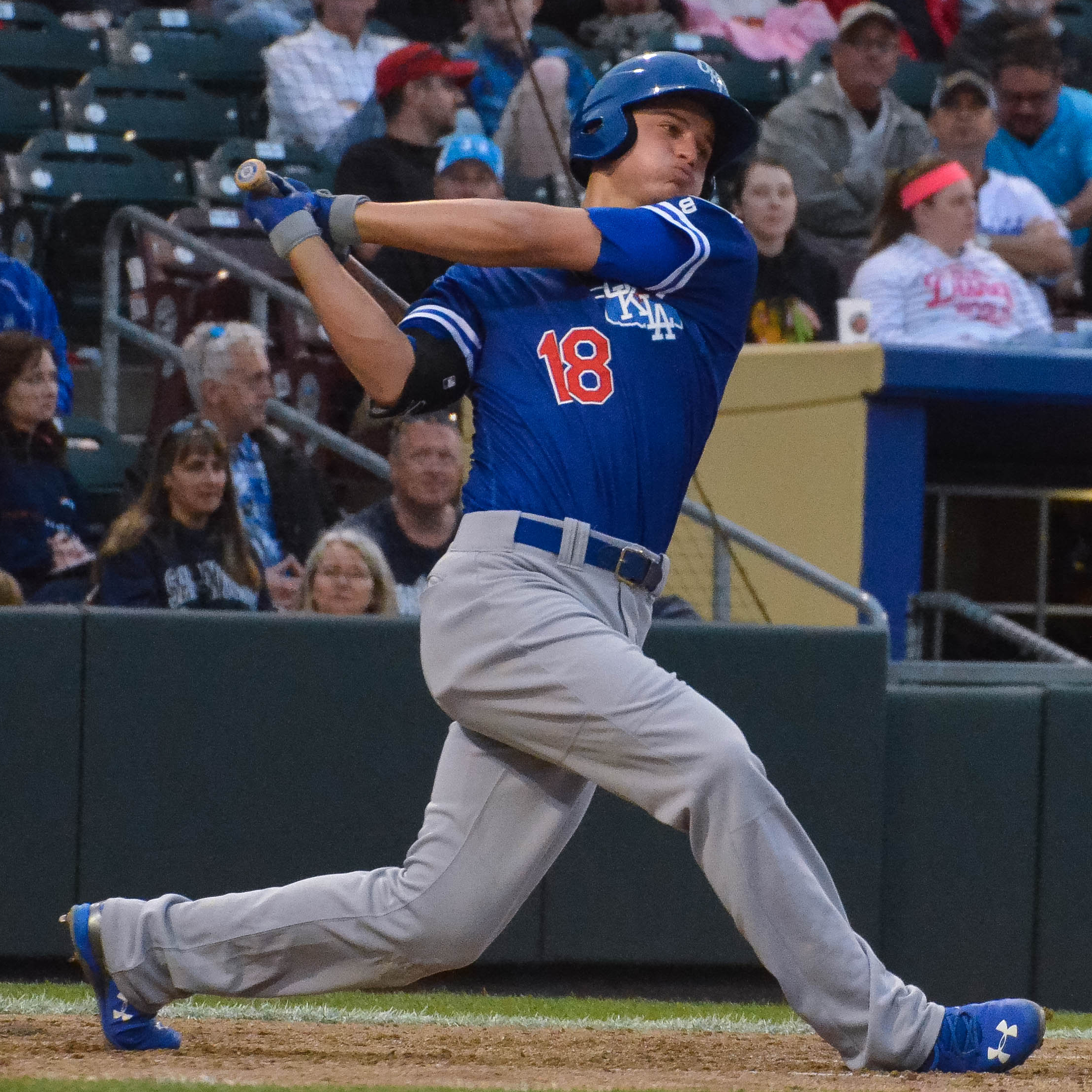 Corey Seager